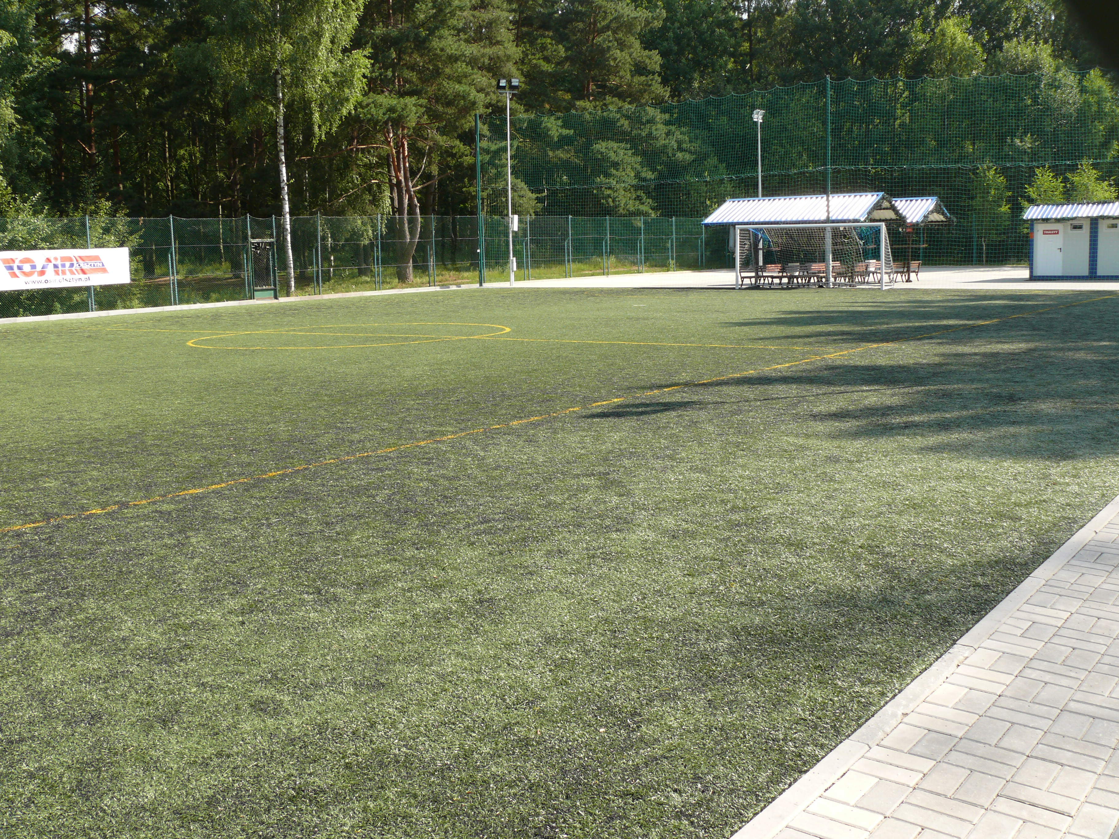 Football court on Pieczewo in Olsztyn